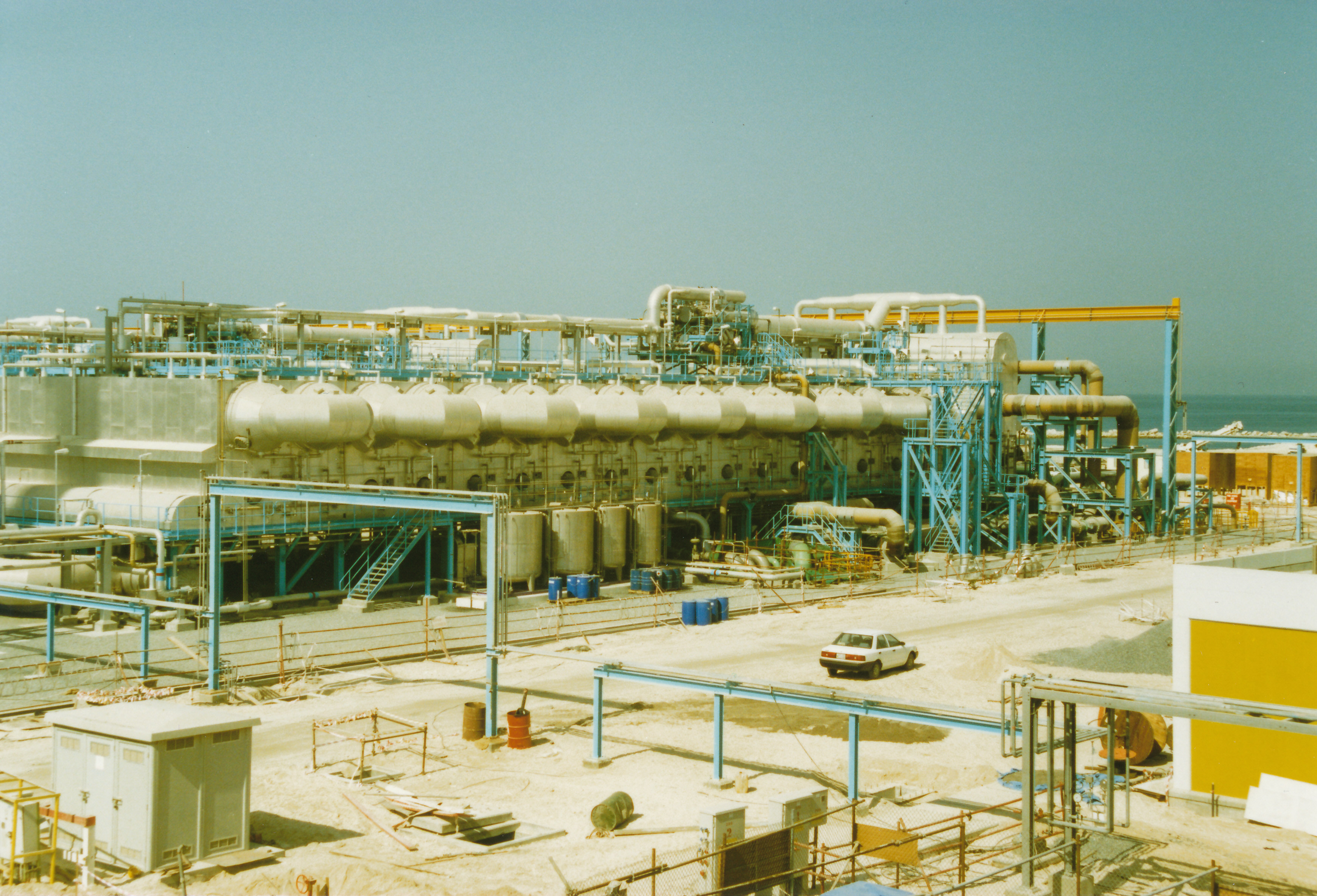 Multi Stage Flash Desalination Plant at Jebel Ali G Station (Dubai), supplied by Weir Westgarth Ltd